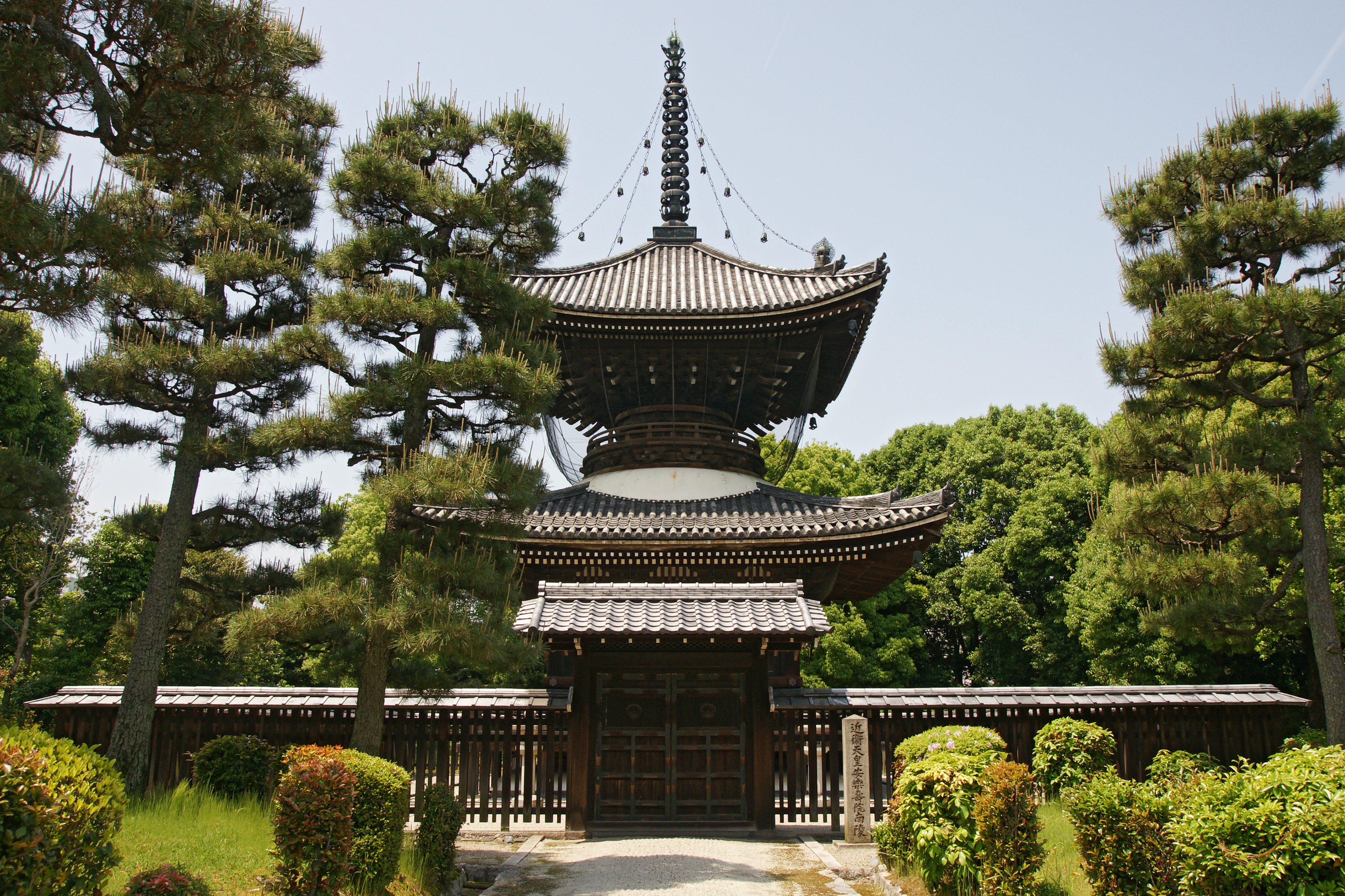 Anrakujuin in Kyoto, Kyoto prefecture, Japan.